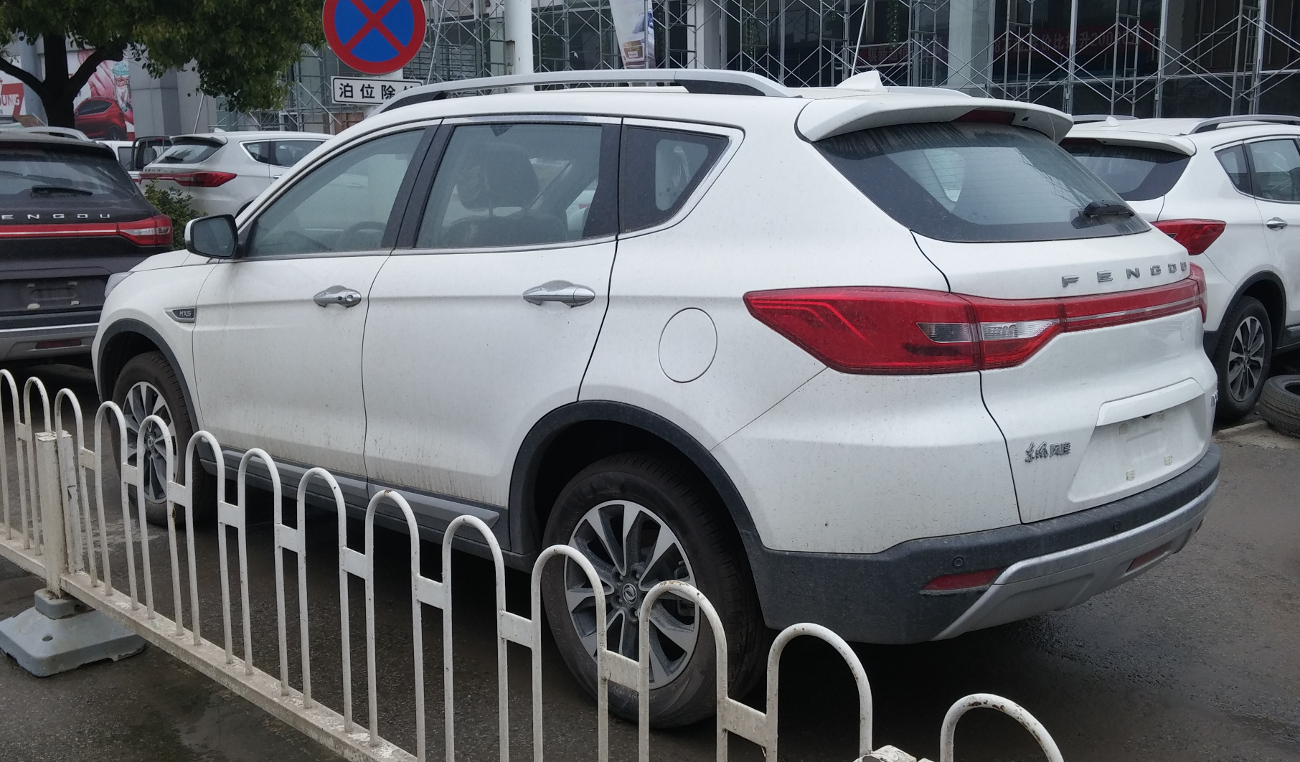 Dongfeng Fengdu MX5 photographed in Wuhan, Hubei province, China.